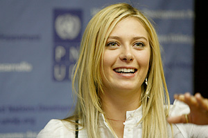 Russian tennis player Maria Sharapova posing in 2010 for the United Nations Development Programme, for which she is a Goodwill Ambassador